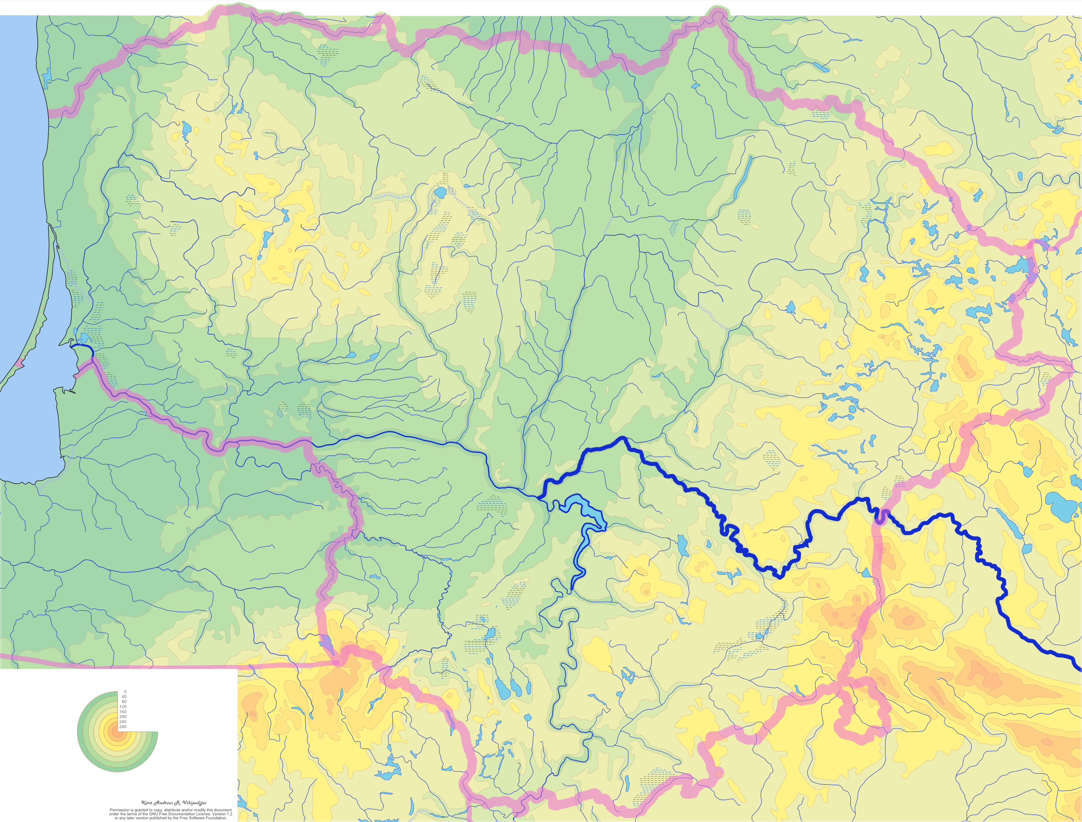 Neris on Lithuania map